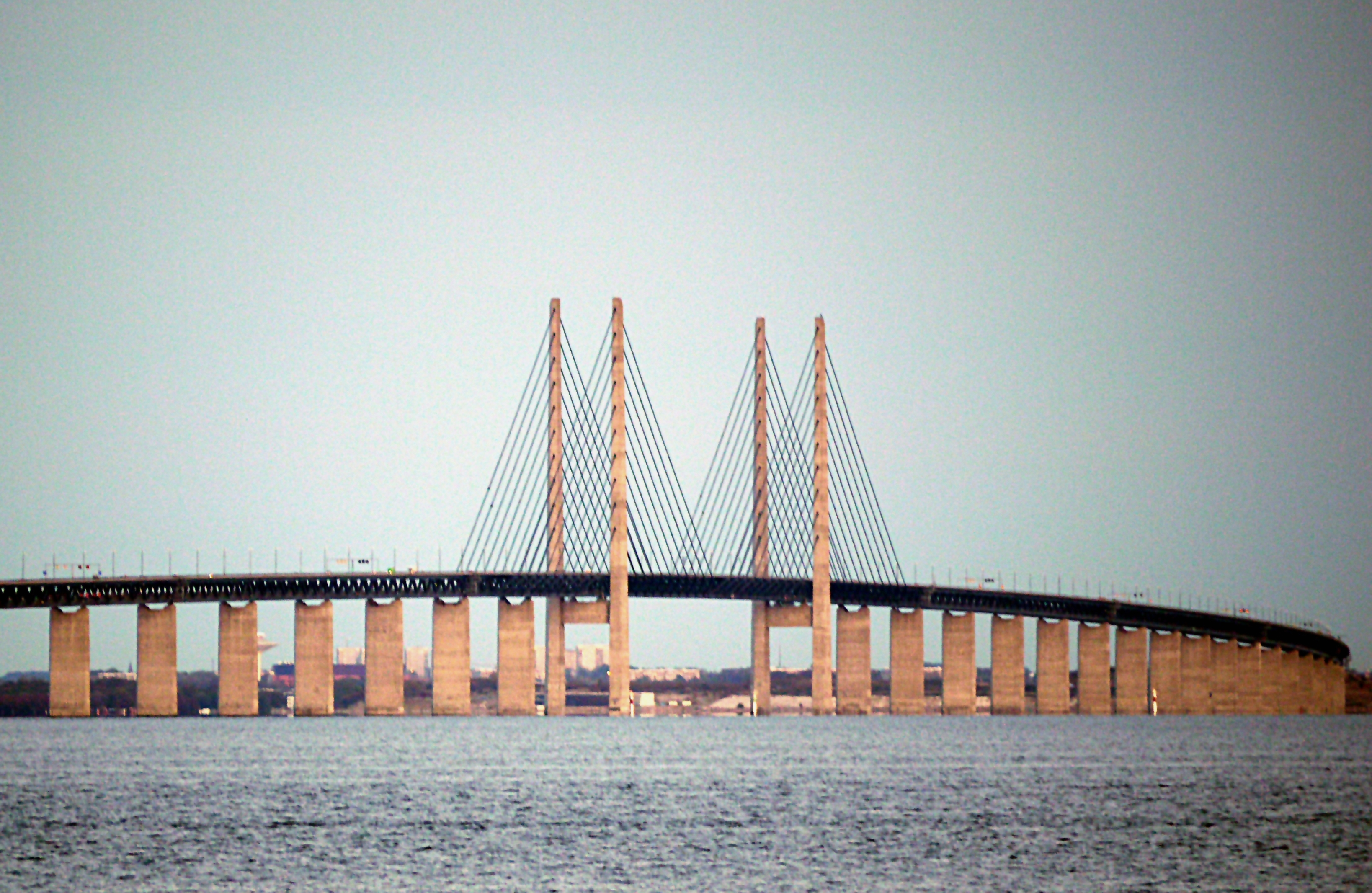 Öresundsbron